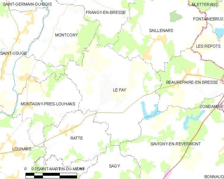 Map of French municipality